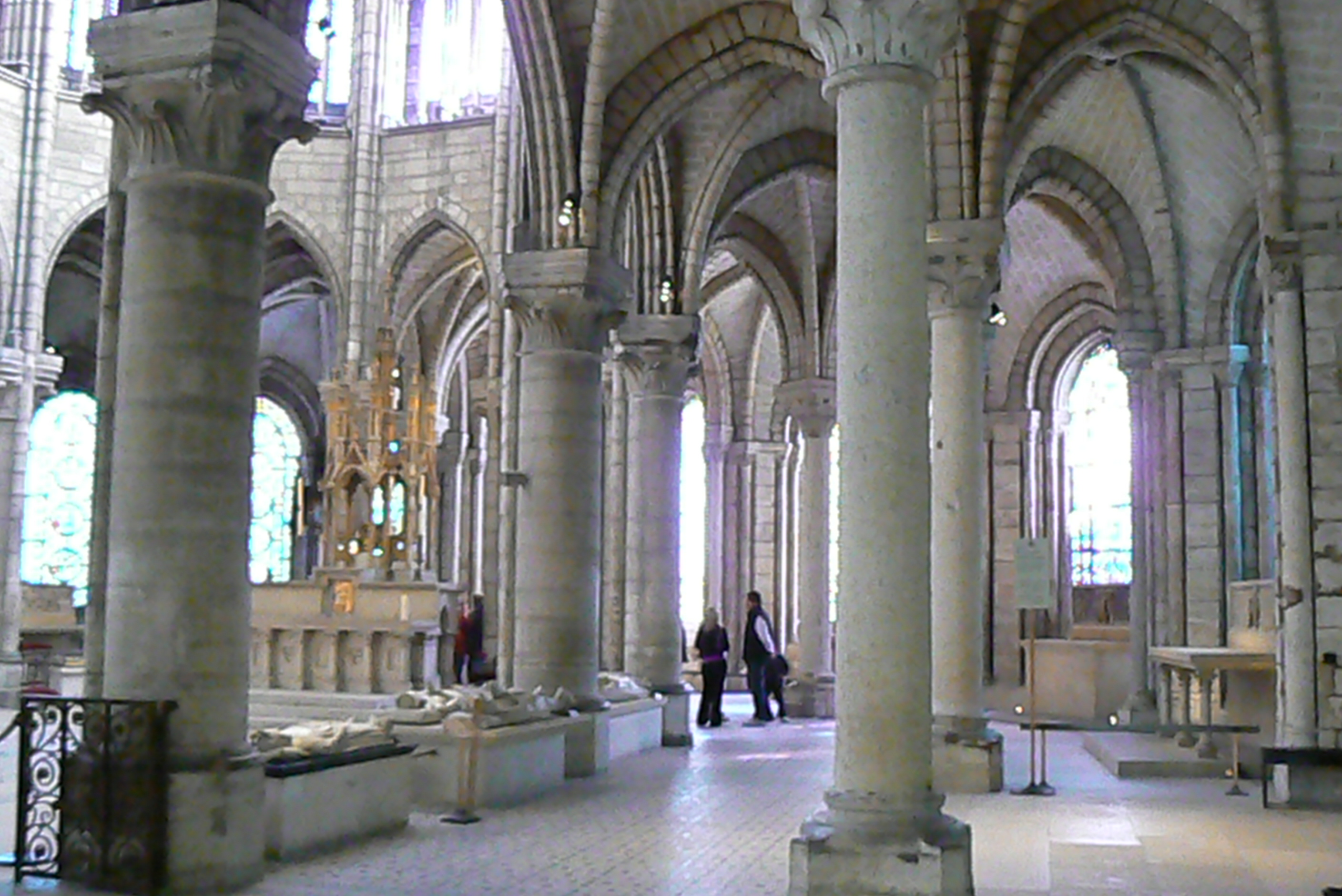 Balisila of Saint-Denis, Paris, interior